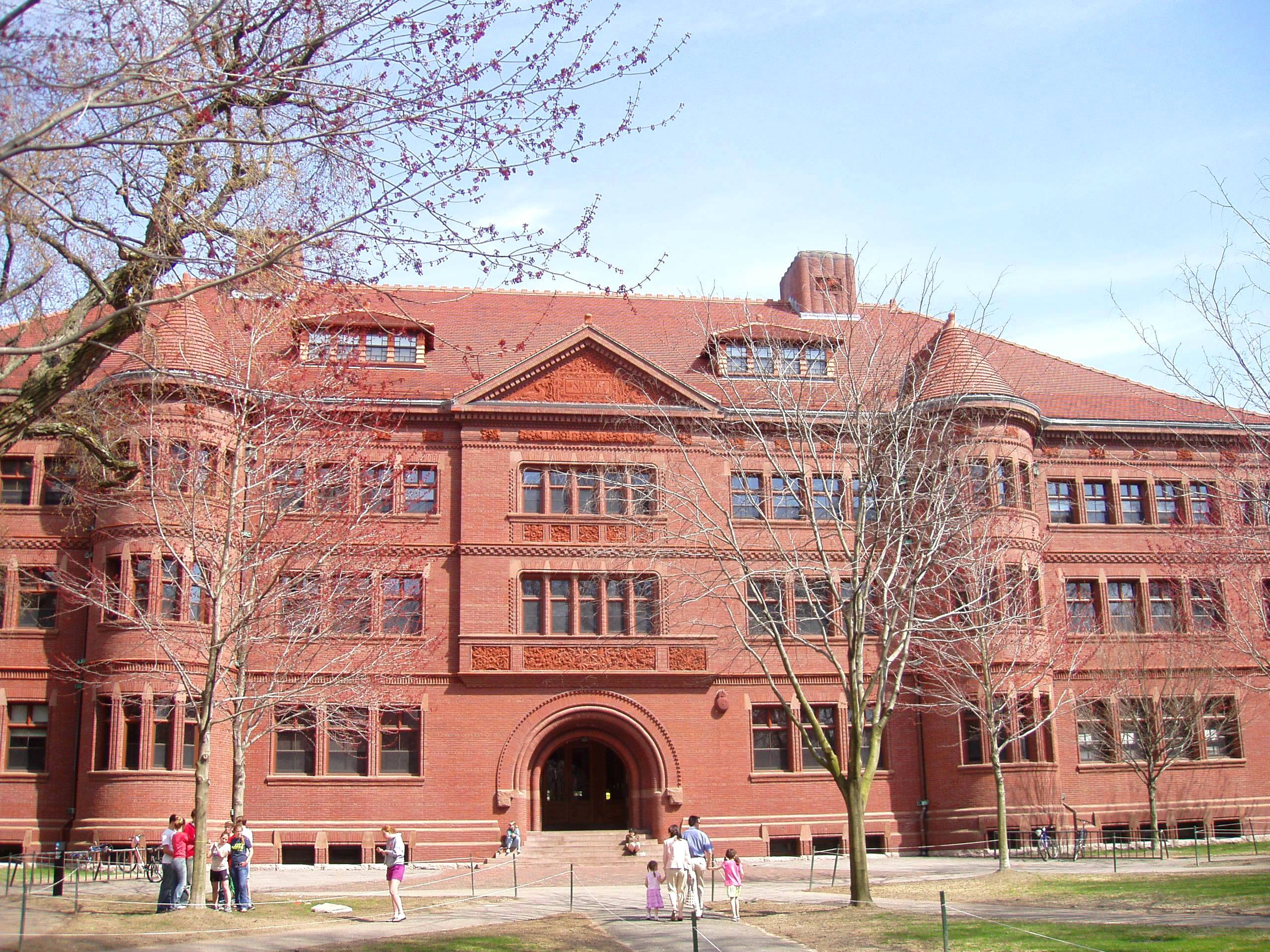 Photograph of Sever Hall, Harvard University, Cambridge, Massachusetts, USA. Architect H. H. Richardson. General view of west facade.